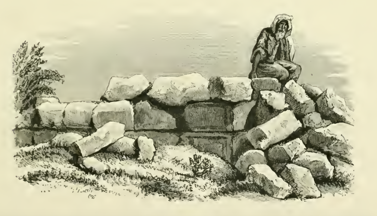 Raba, Jenin